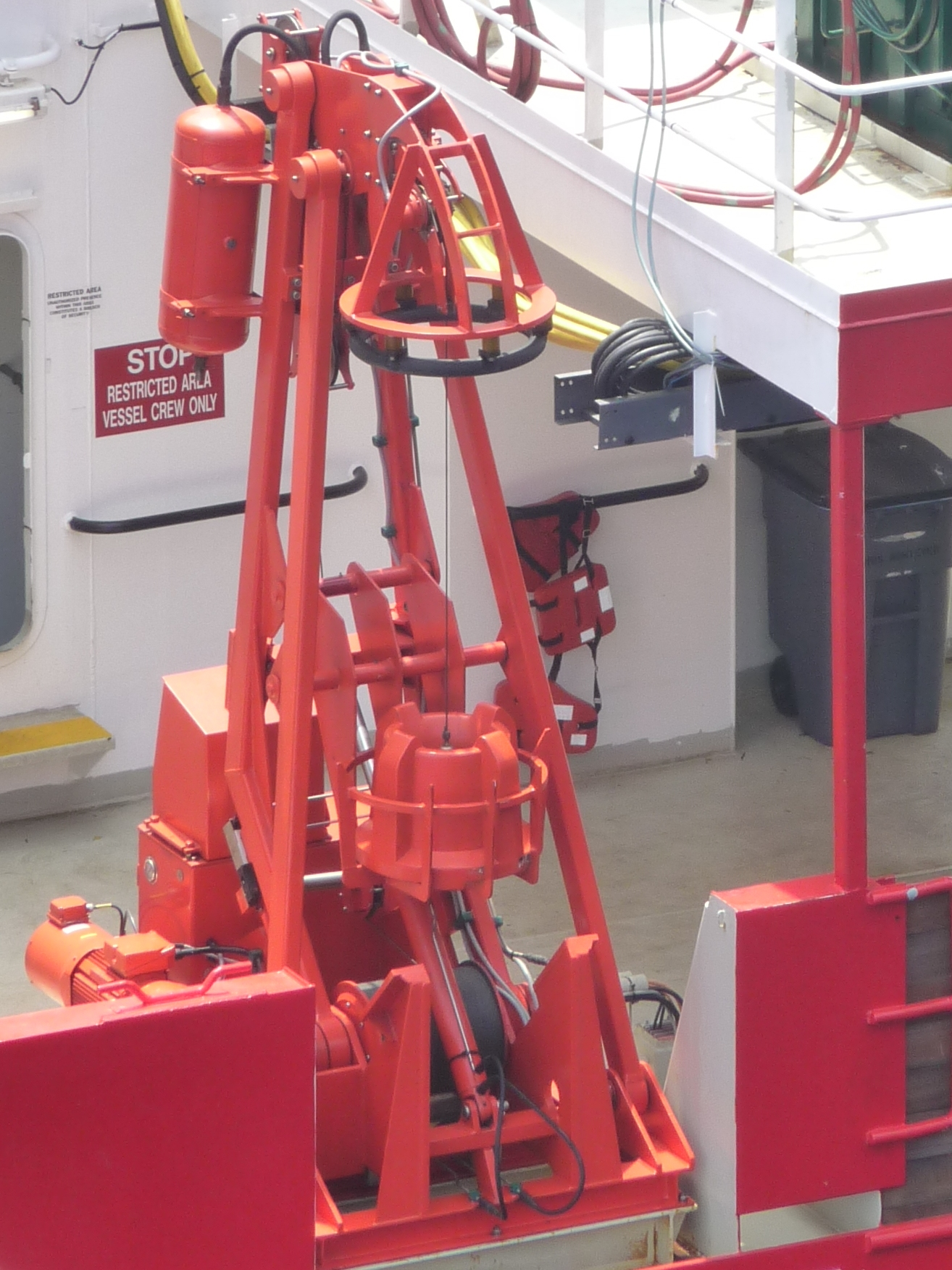 Light Taut Wire on the HOS Achiever